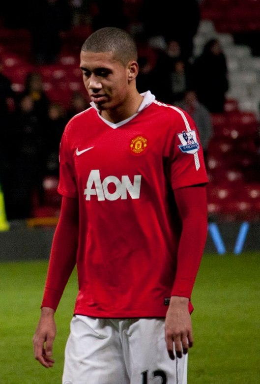 Chris Smalling